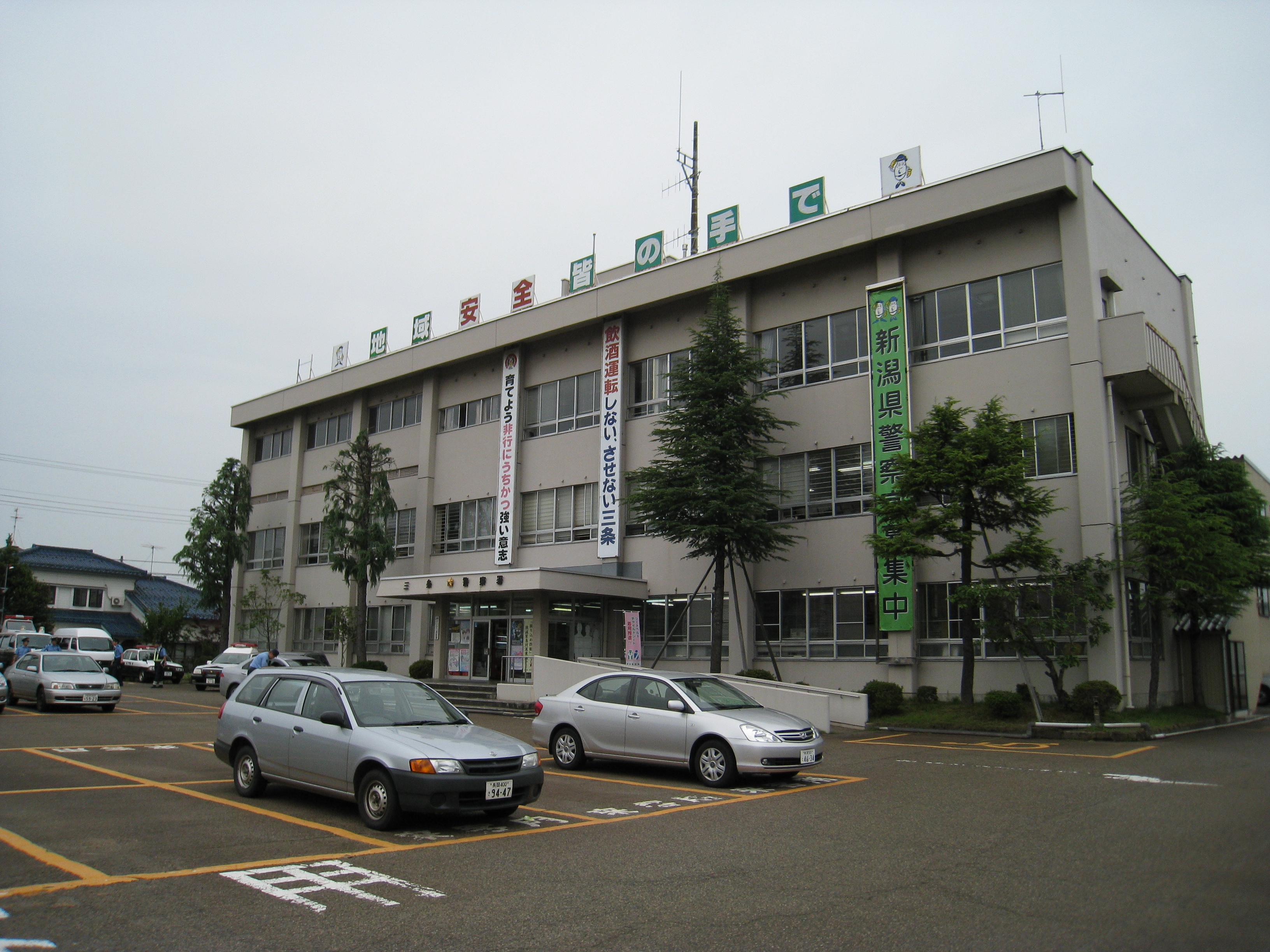 Sanjo Police Station. Sanjo-City, Niigata-Pref, Japan.